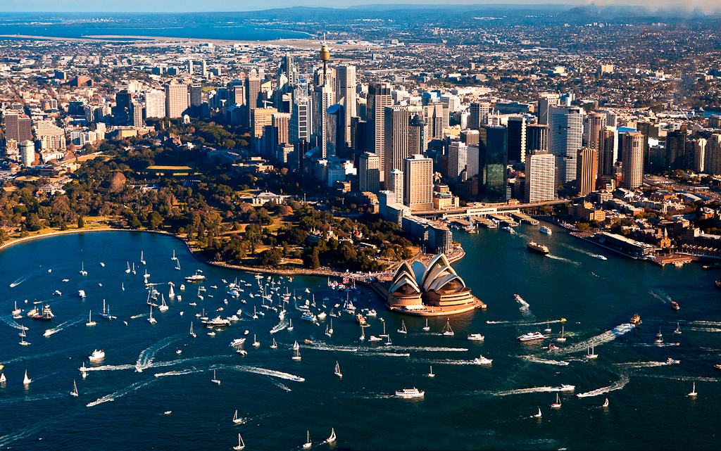 Sydney Harbour welcomes Jessica Watson